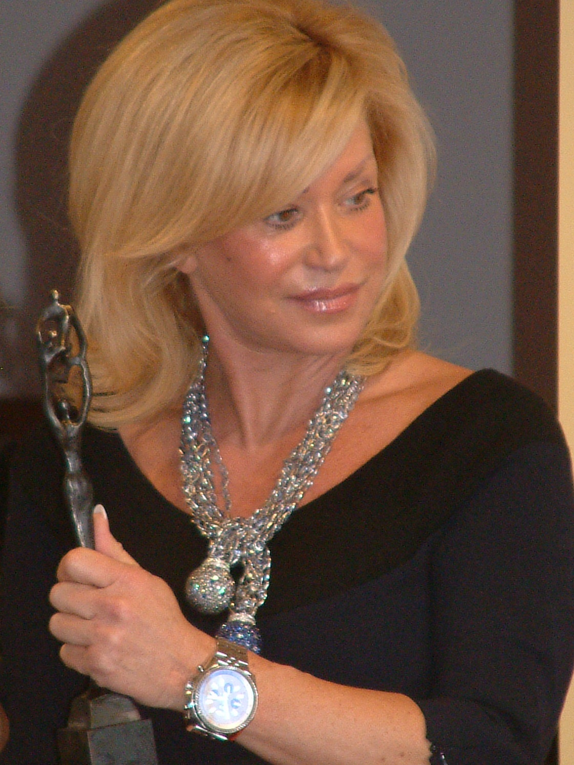 Connie Breukhoven-Witteman